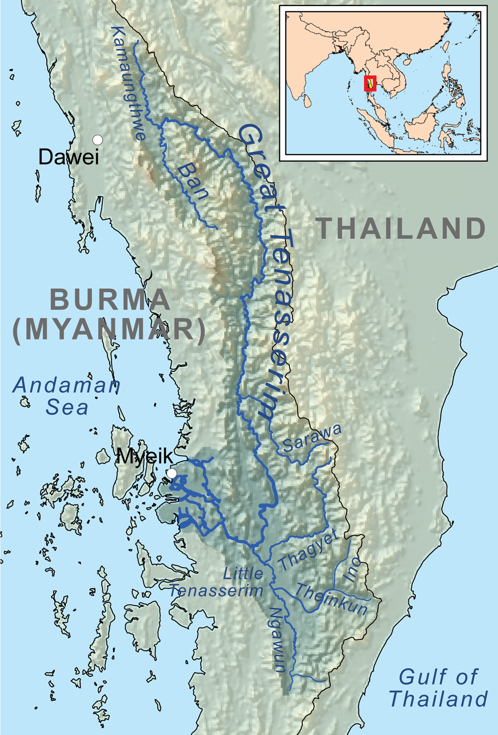 Map showing the Great Tenasserim River drainage basin.